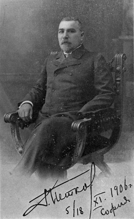 Original description: "His Excellency D. Petkoff, Prime Minister of Bulgaria"